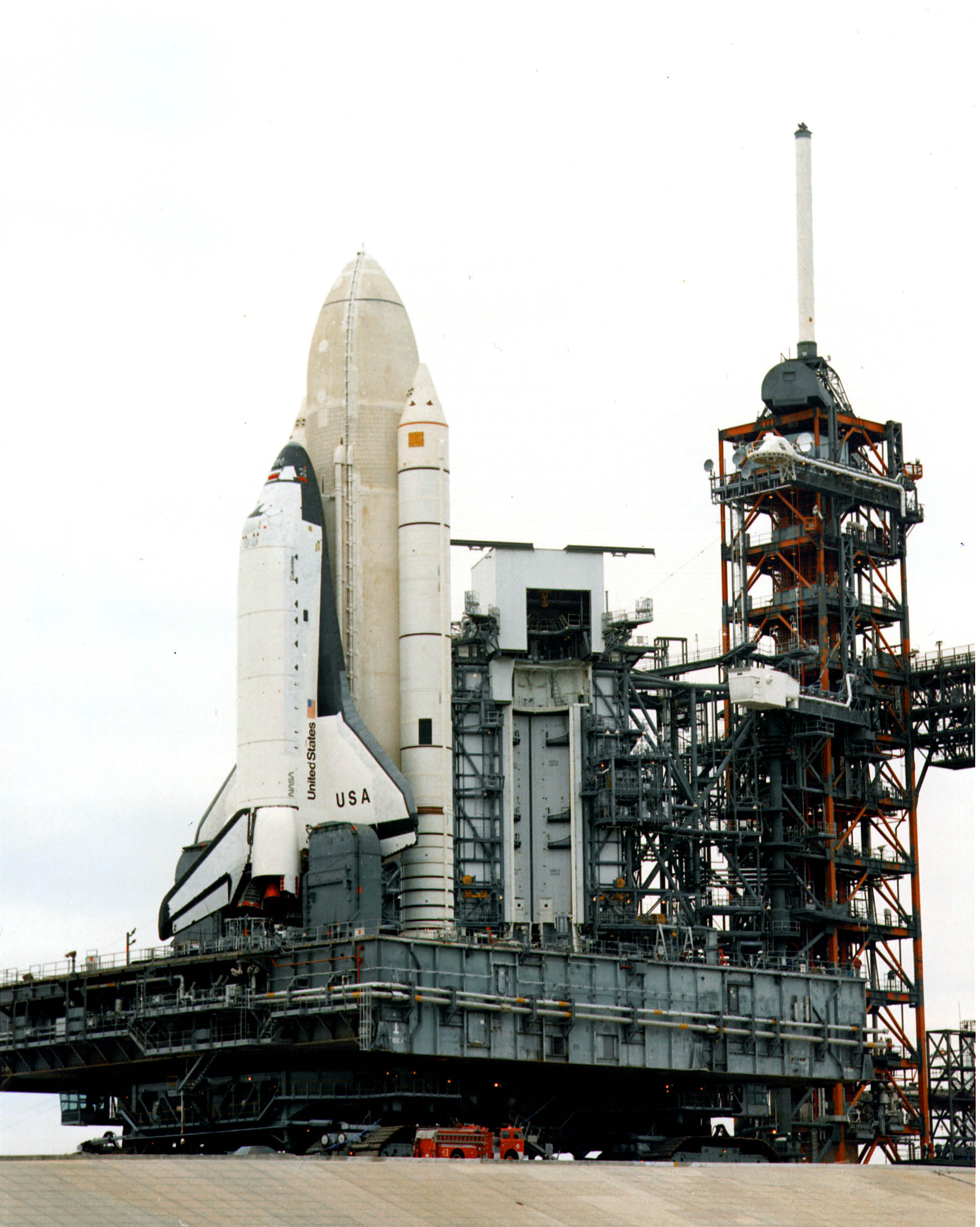 STS-1 Orbiter Columbia - arrival at Complex 39A.